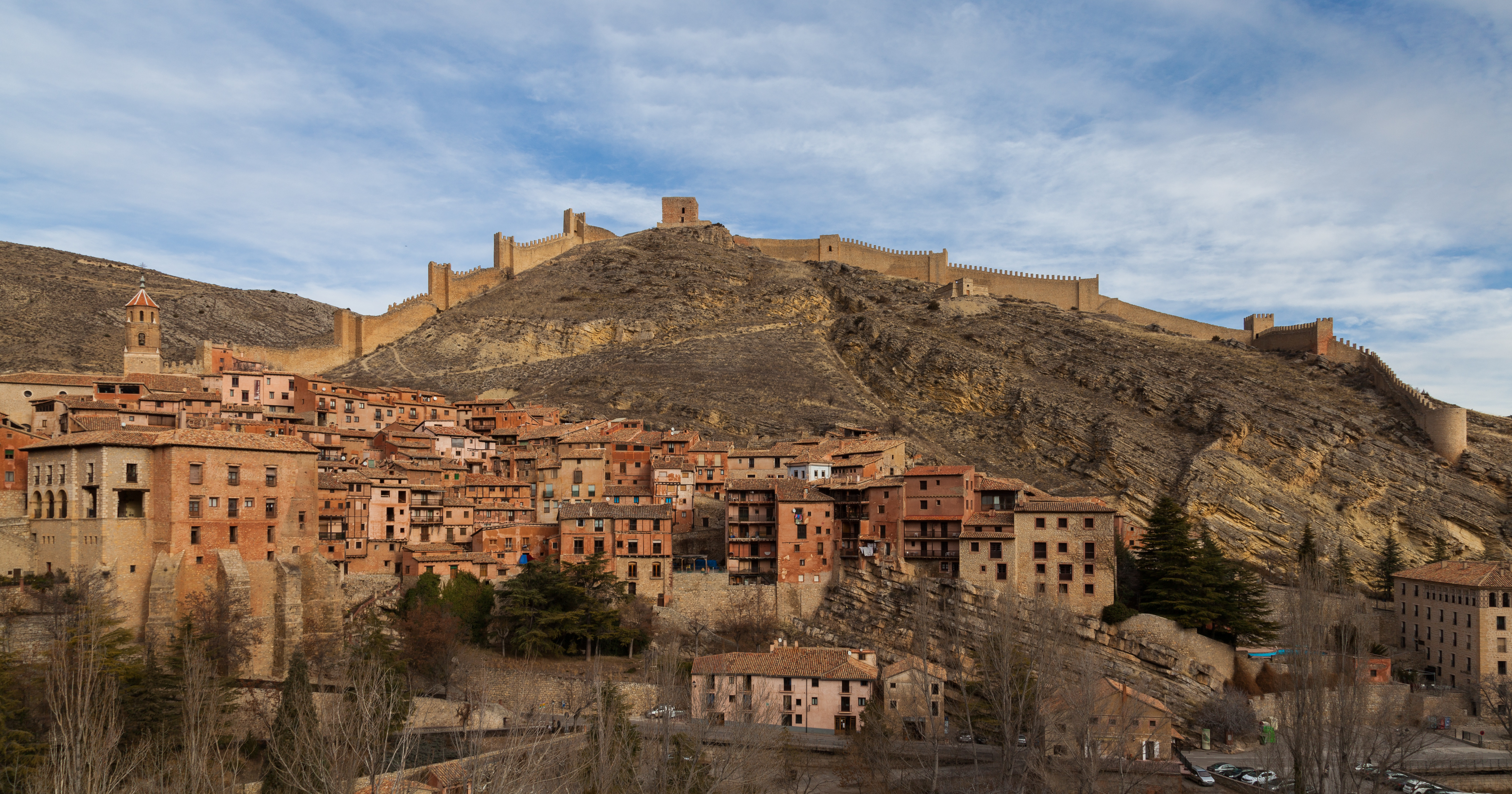 Albarracín, Teruel, Spain